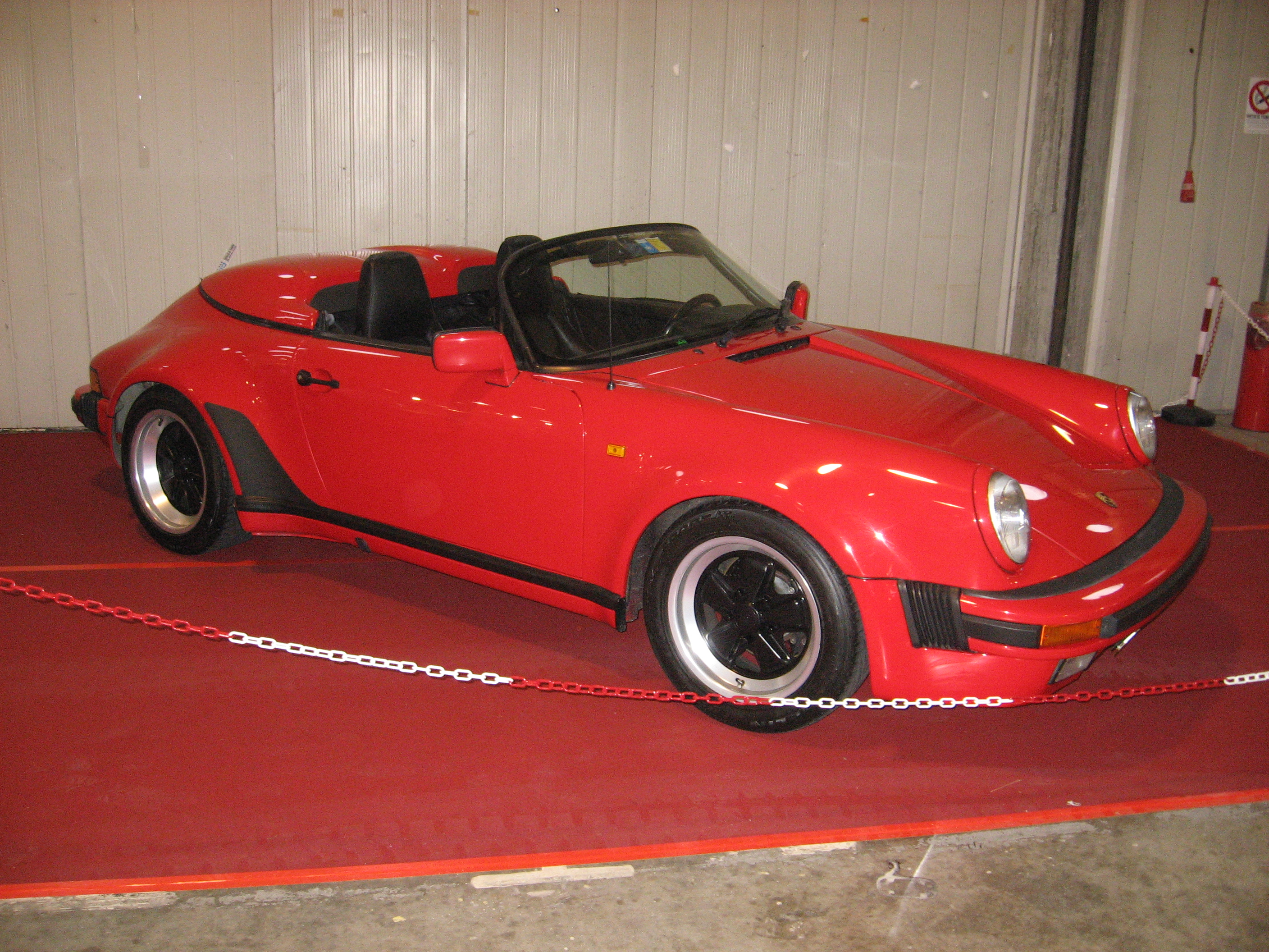 Subject:Porsche 911 Speedster Author:Luc106 Date:November 24th, 2007 Event:Marke-Retrò 2007 Place/Country: Cesena (FC), Italy I release all rights in the public domain.